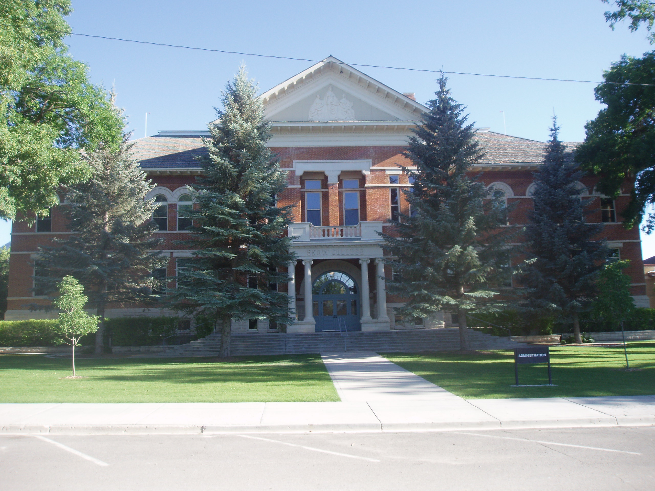 The Noyes Building, the administration building of Snow College in Ephraim, Utah, United States, is listed as the "Snow Academy Building" on the National Register of Historic Places.